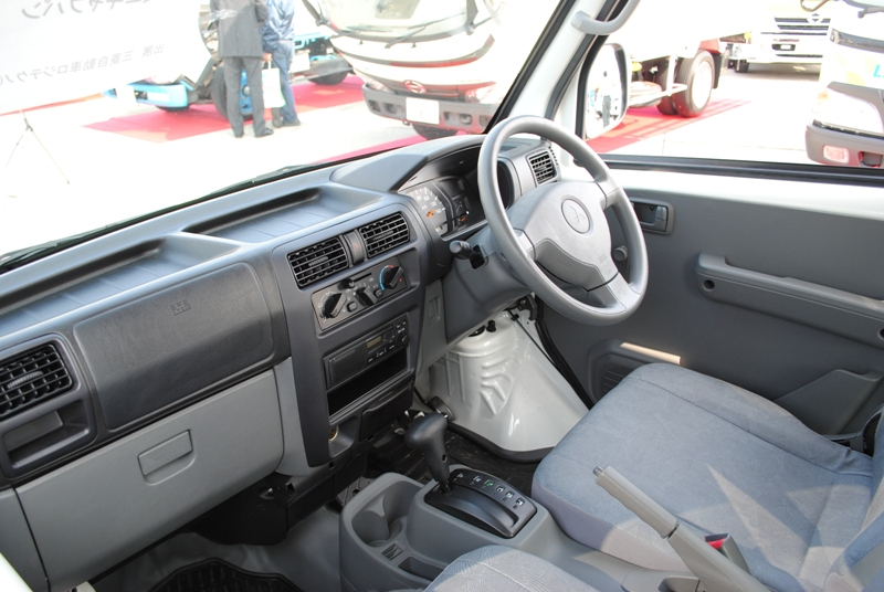 Mitsubishi Minica interior.